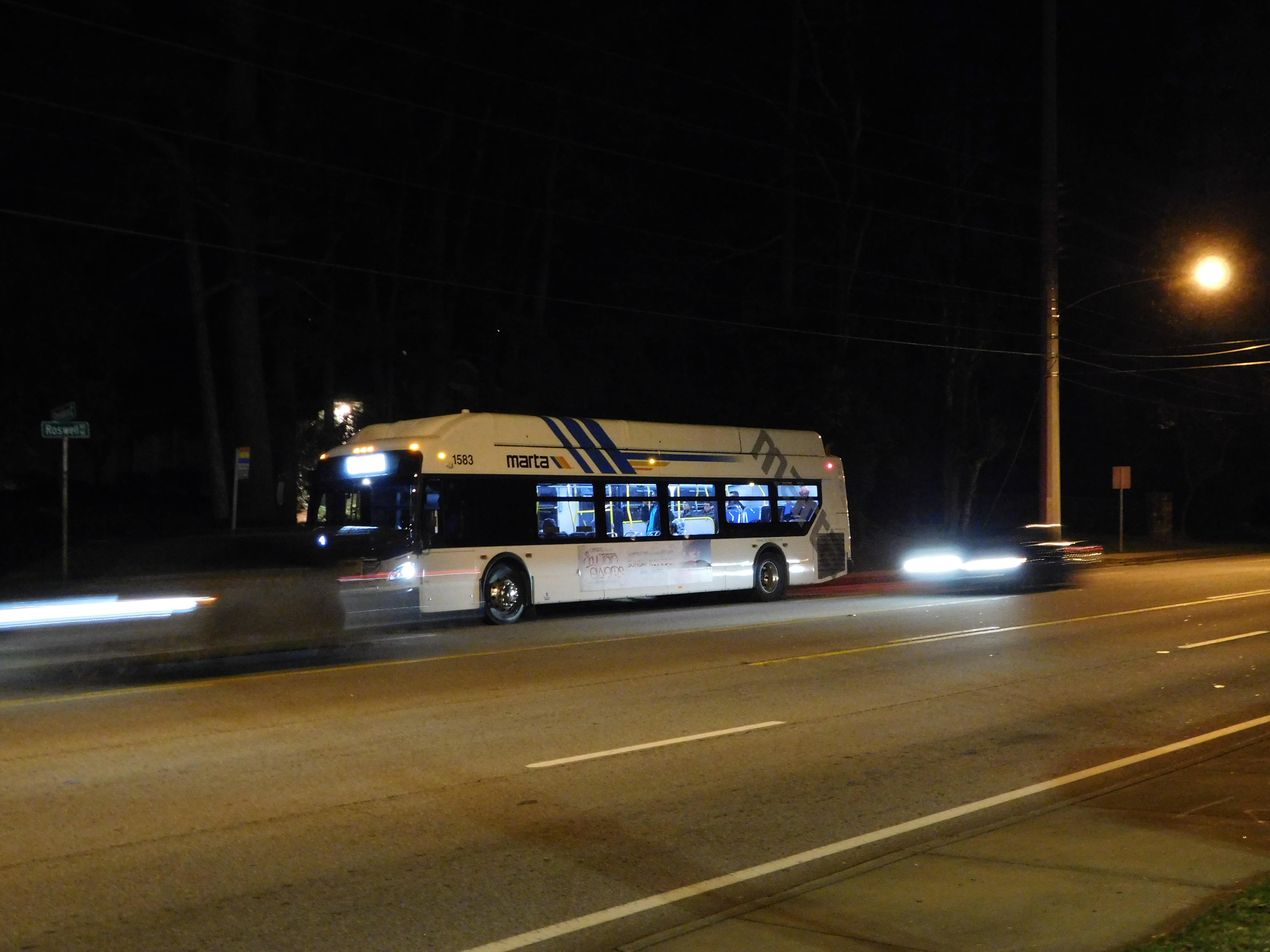 2014 MARTA Xcelsior 1583 on the 5 Bus on Roswell Road.